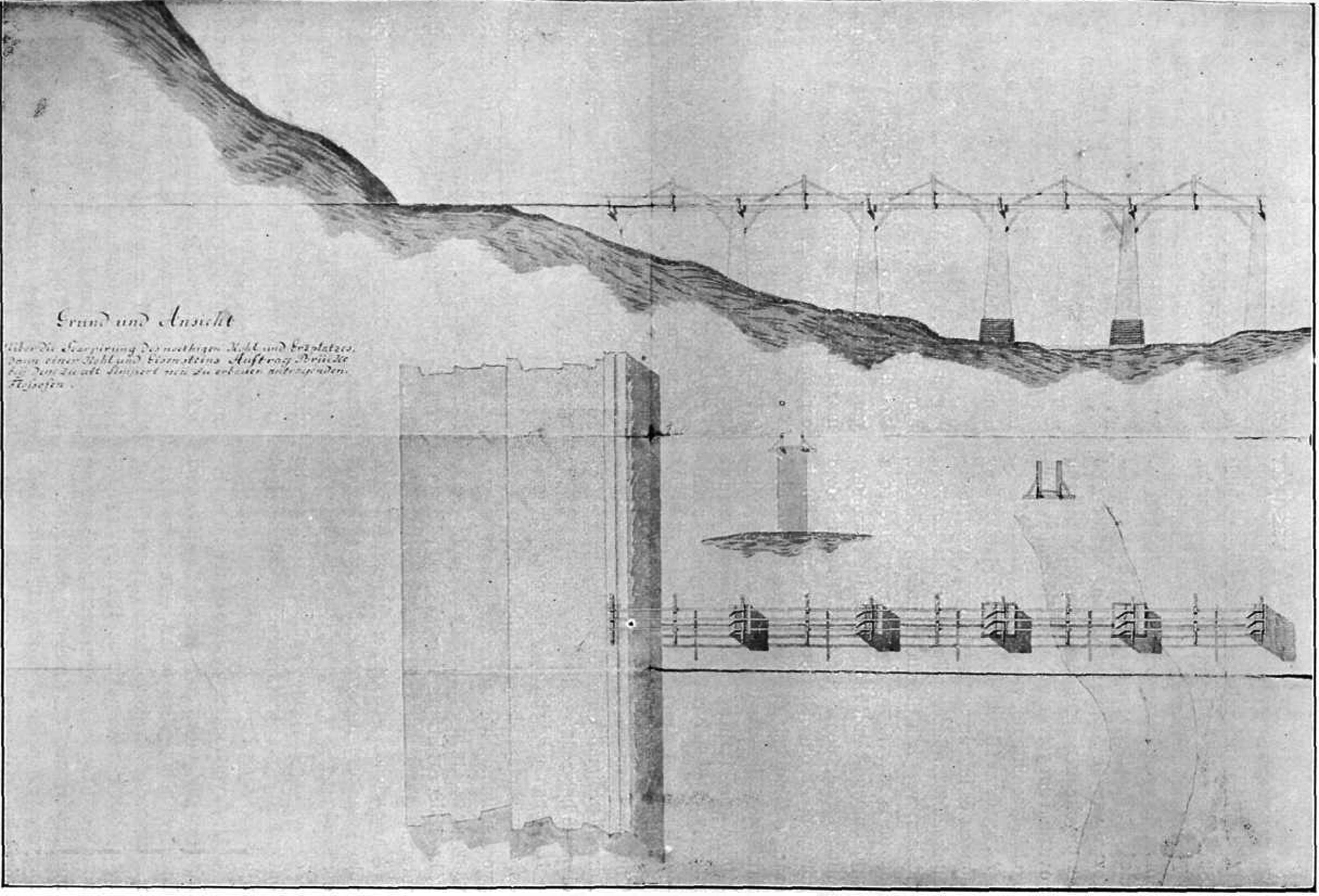 Sketch of the bridge for loading the furnace